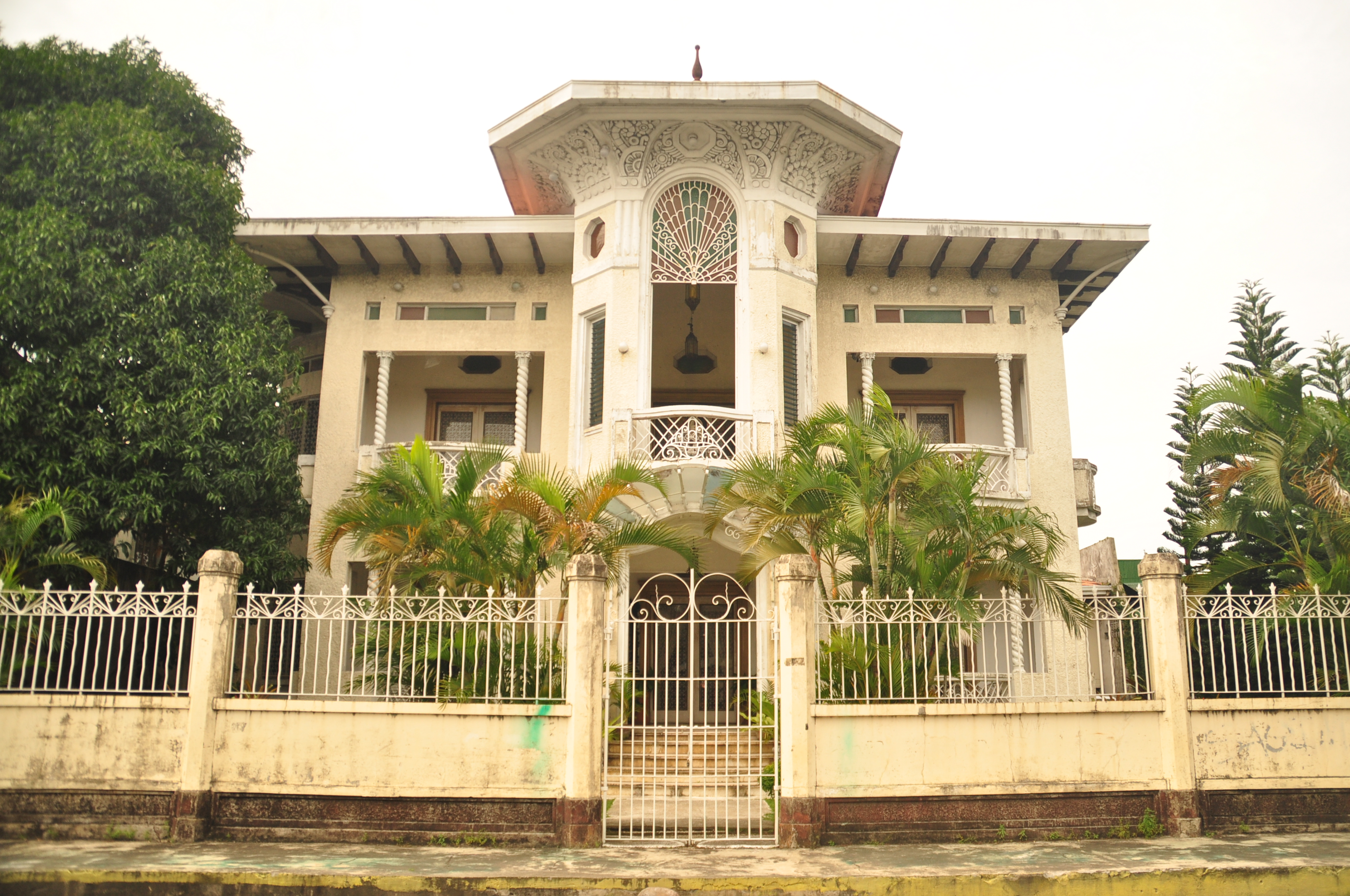 Gala-Rodriguez Ancestral House (Declared as an NHI Heritage House in 2008)